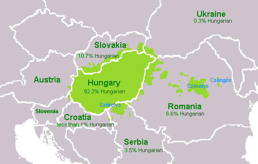 Hungarian speakers in Eastern Europe.